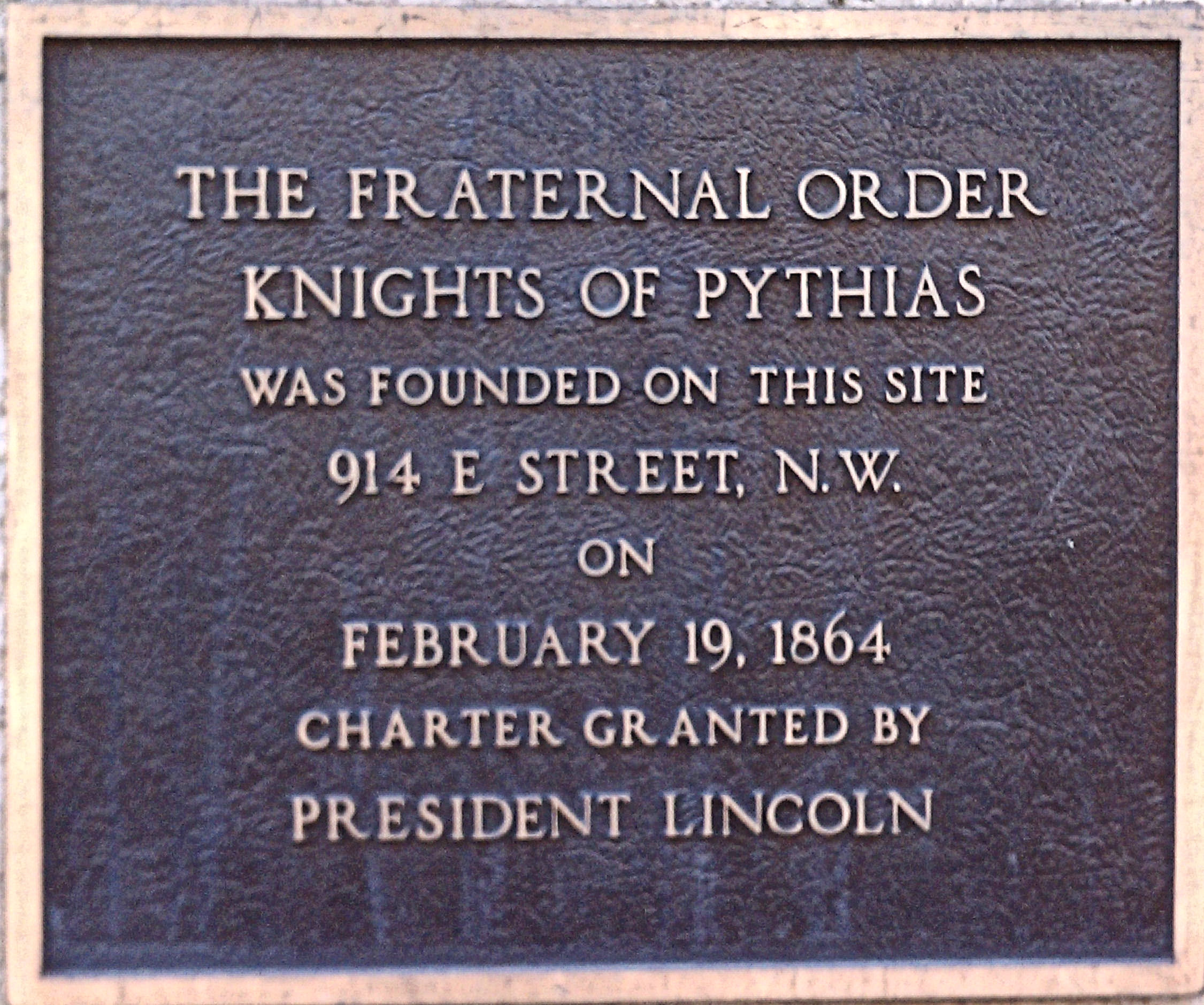 Plaque on the Federal Bureau of Investigation (FBI) Building in Washington, D.C., denoting the founding of the Knights of Pythias at that location in 1864.